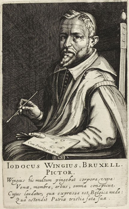 Etching by Hendrick Hondius (I), signed "Hh ex.", attributed to Simon Frisius 20.1 x 11.9 cm Printed in Pictorum aliquot celebrium, præcipué Germaniæ Inferioris, effiges (The Hague, 1610)